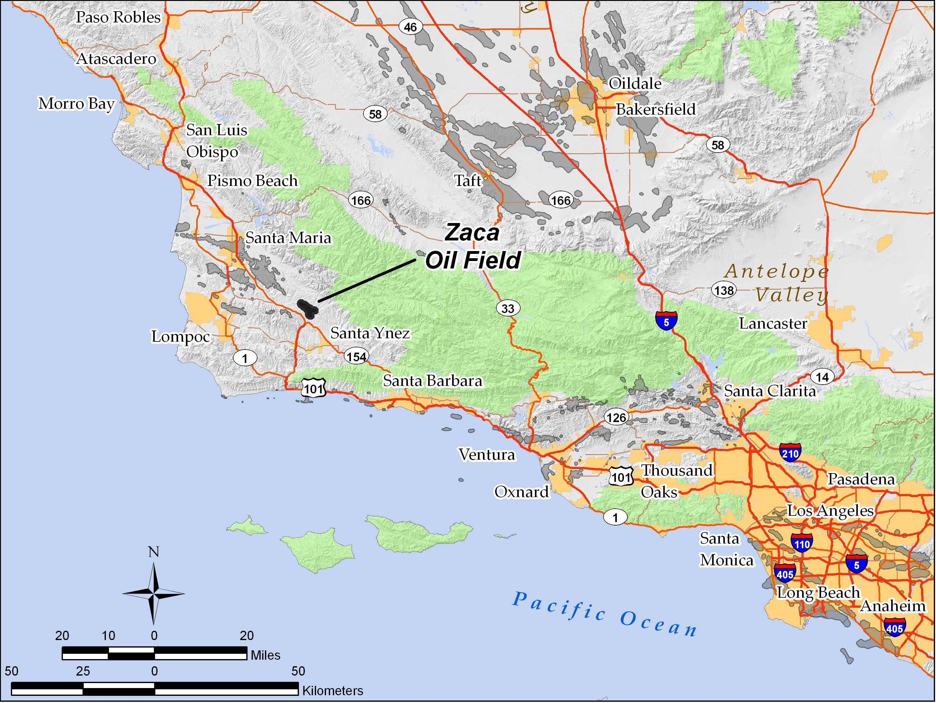 Location of Zaca field. By self using ArcGIS 10.1; all data is public domain.